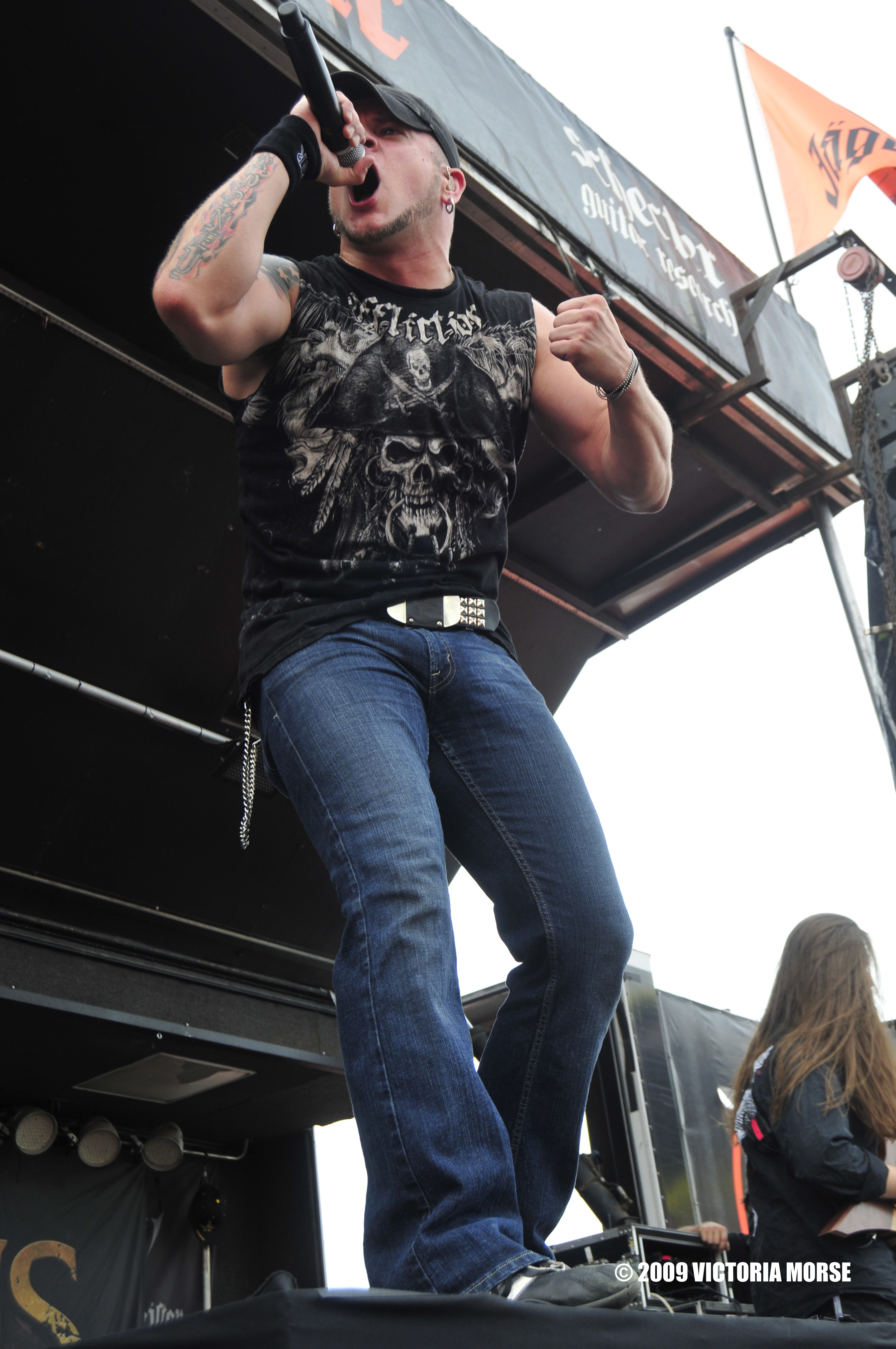 vocalist of the band All That Remains